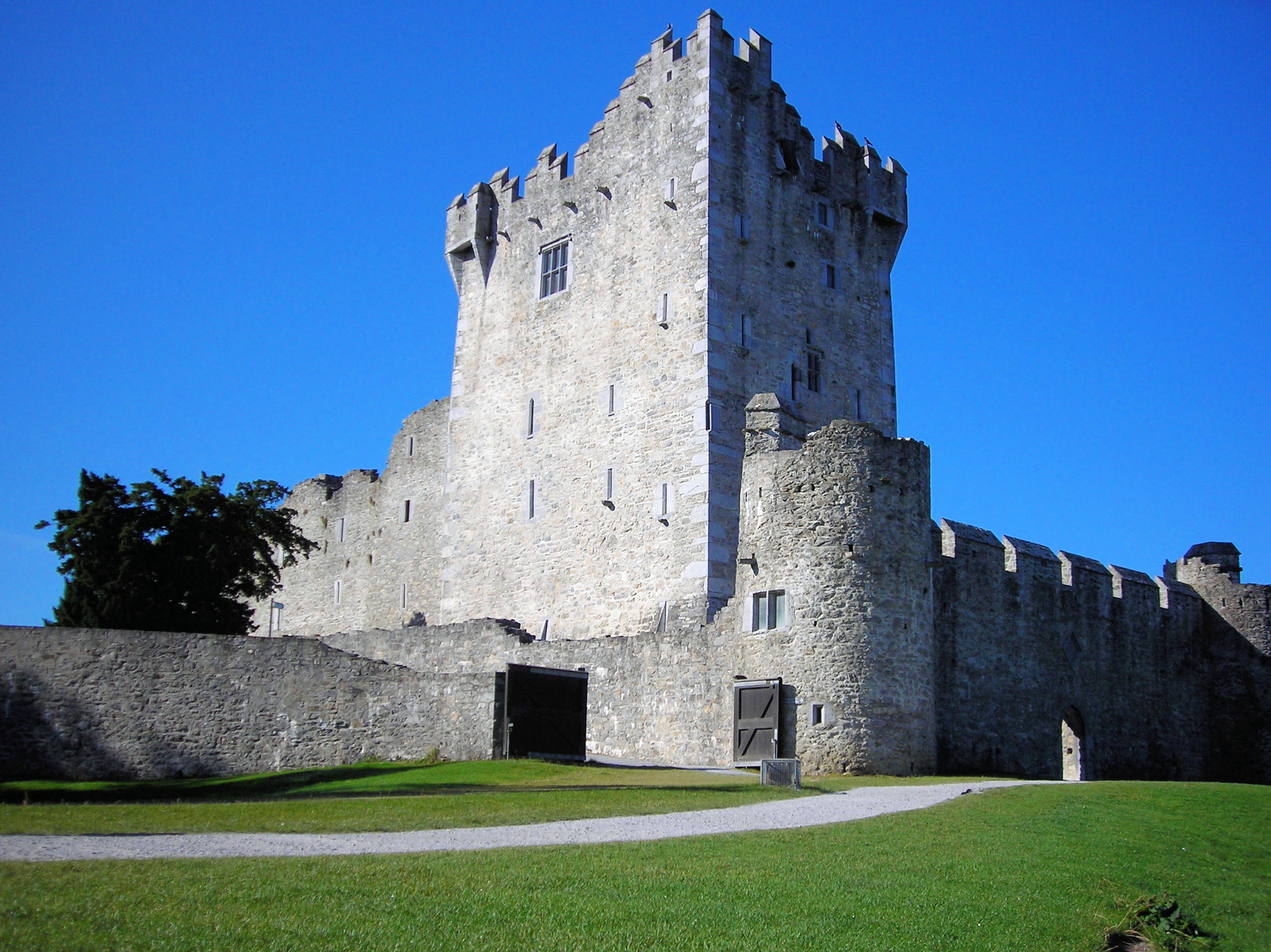 Ross Castle (Irish: Caisleán an Rois) is the ancestral home of the O'Donoghue clan. It is located on the edge of Lough Leane, in Killarney National Park, County Kerry, Ireland.